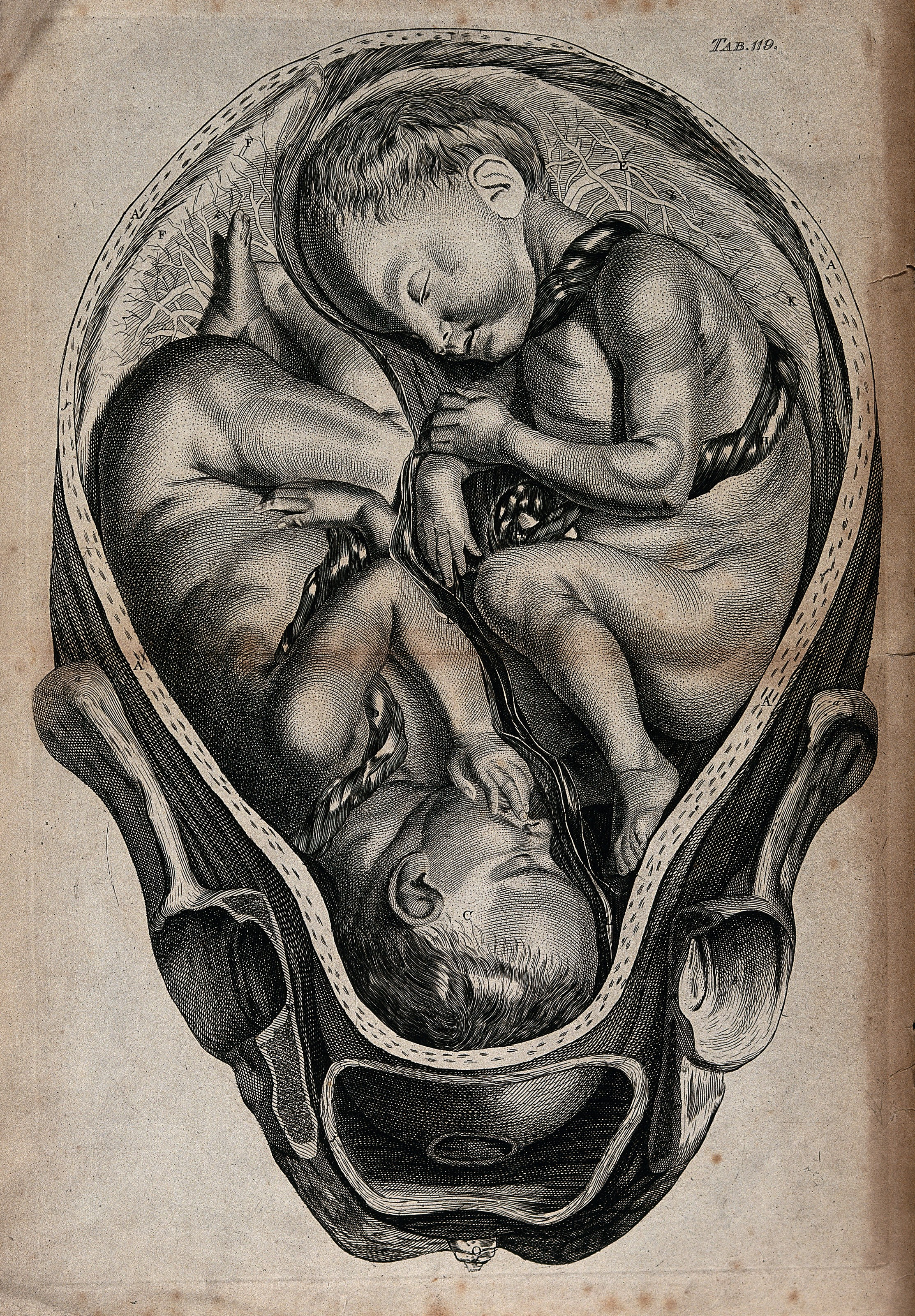 A cross-section of a pregnant uterus containing twins. Engraving after W. Smellie after J. van Rymsdyck. Iconographic Collections Keywords: Jan van Rymsdyk; William Smellie